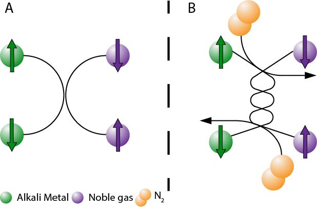 Schematic depiction of polarization transfer via A) binary collisions and B) van der Waals forces to transfer polarization from an alkali metal to a noble gas.